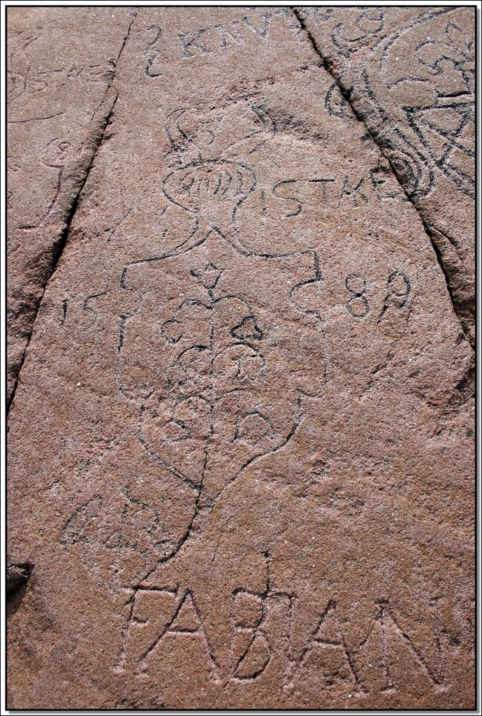 Hauensuoli rocks